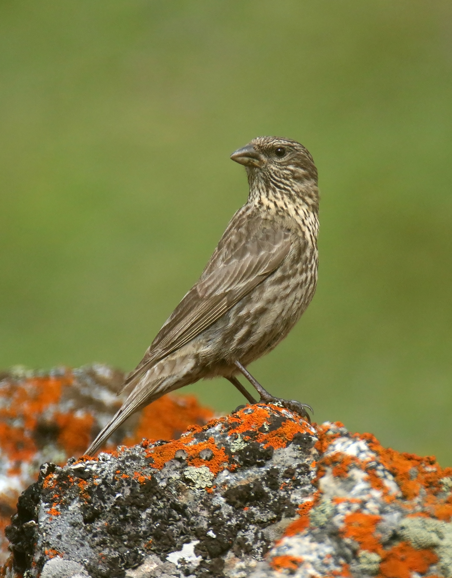 Red-fronted Rosefinch (Carpodacus puniceus) captured at Shispare Ther, Hunza, Gilgit-Baltistan, Pakistan with Canon EOS 7D Mark II